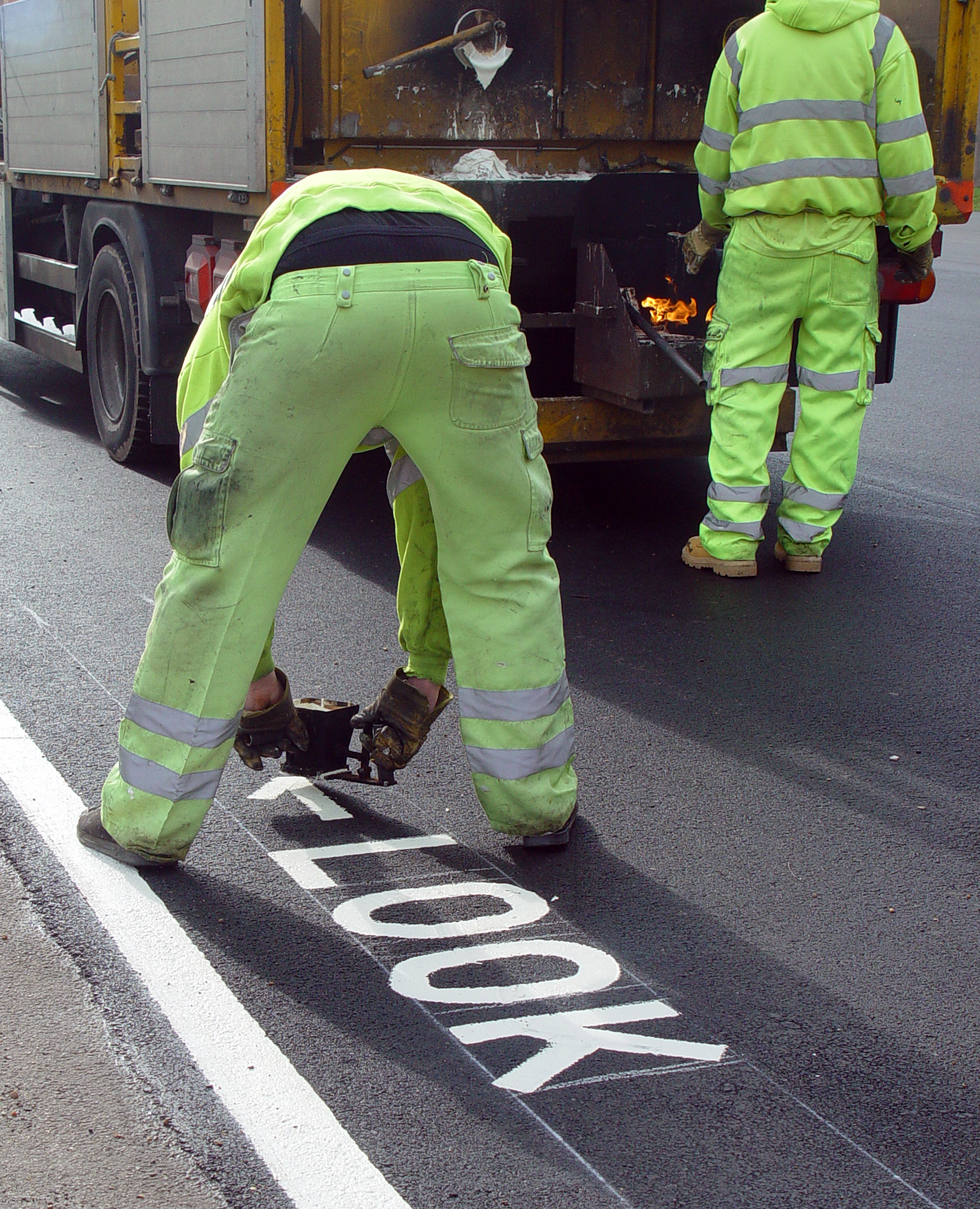 Look: Road surface marking at London Kensington Gardens